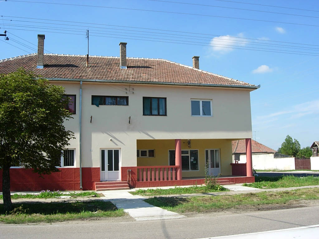 Health centre in Velika Greda.